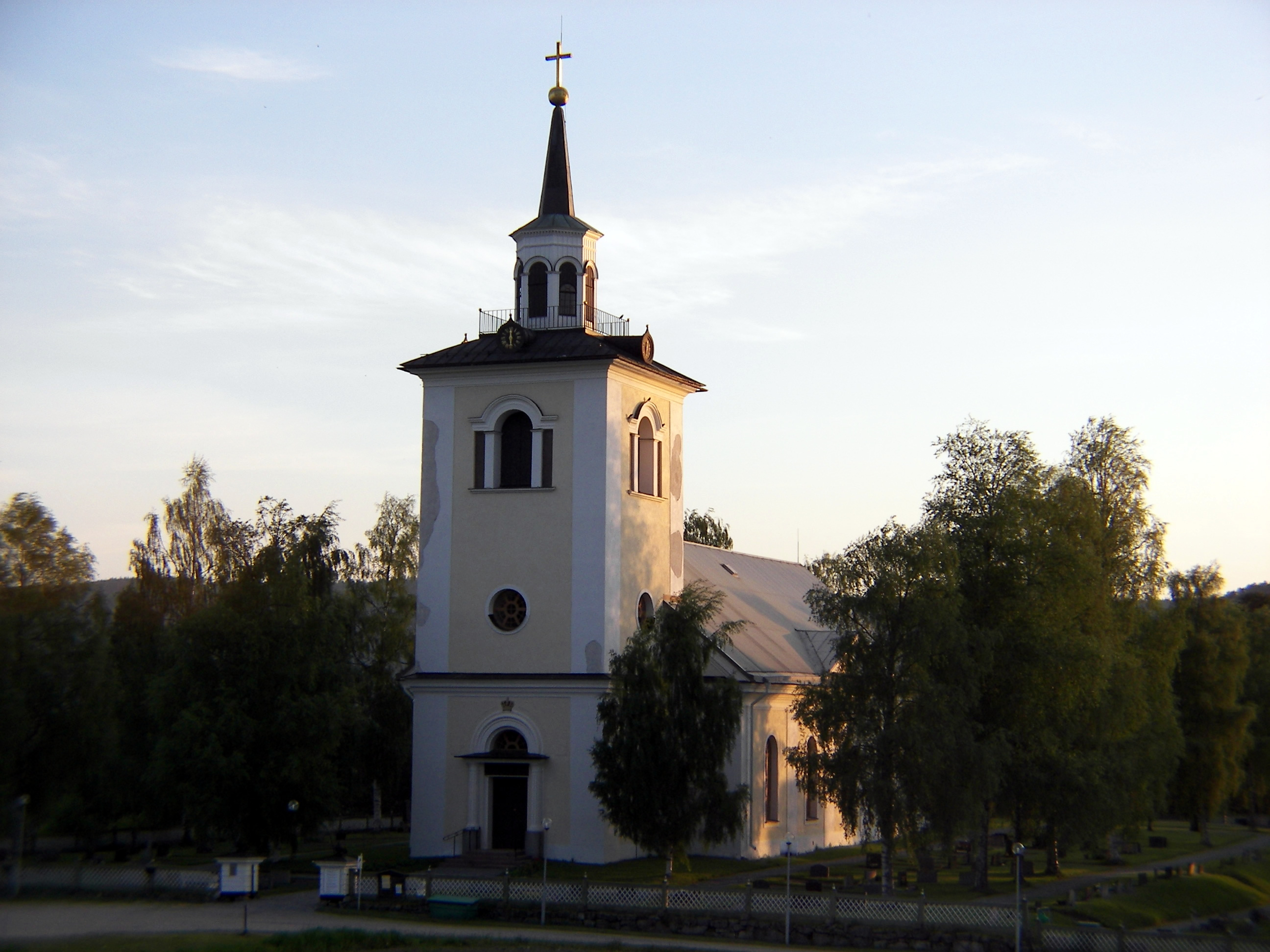 Styrnäs church, Sweden